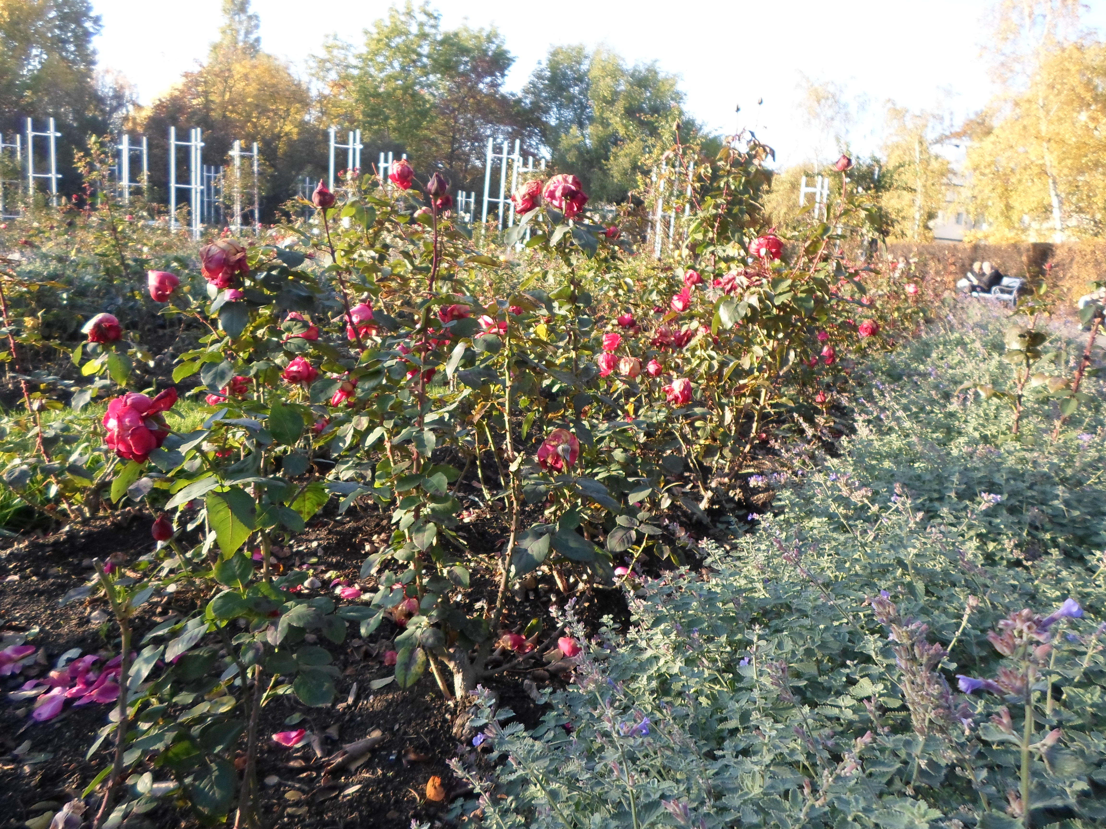 Rose garden in Petrin